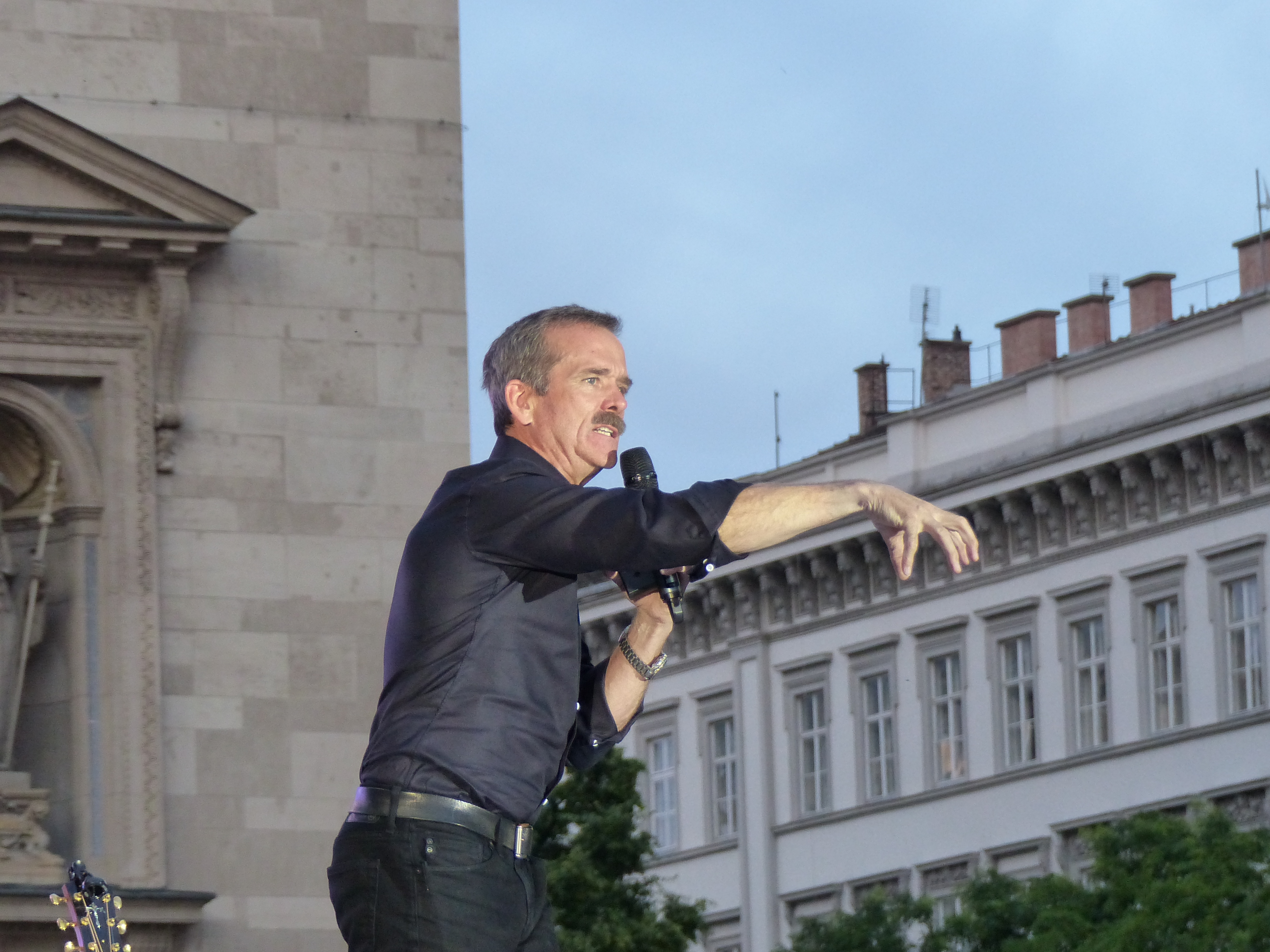 Taken on the 3rd of May, 2016. Bazilika, Budapest. Brain Bar Budapest. Chris Hadfield speaking and playing the guitar.